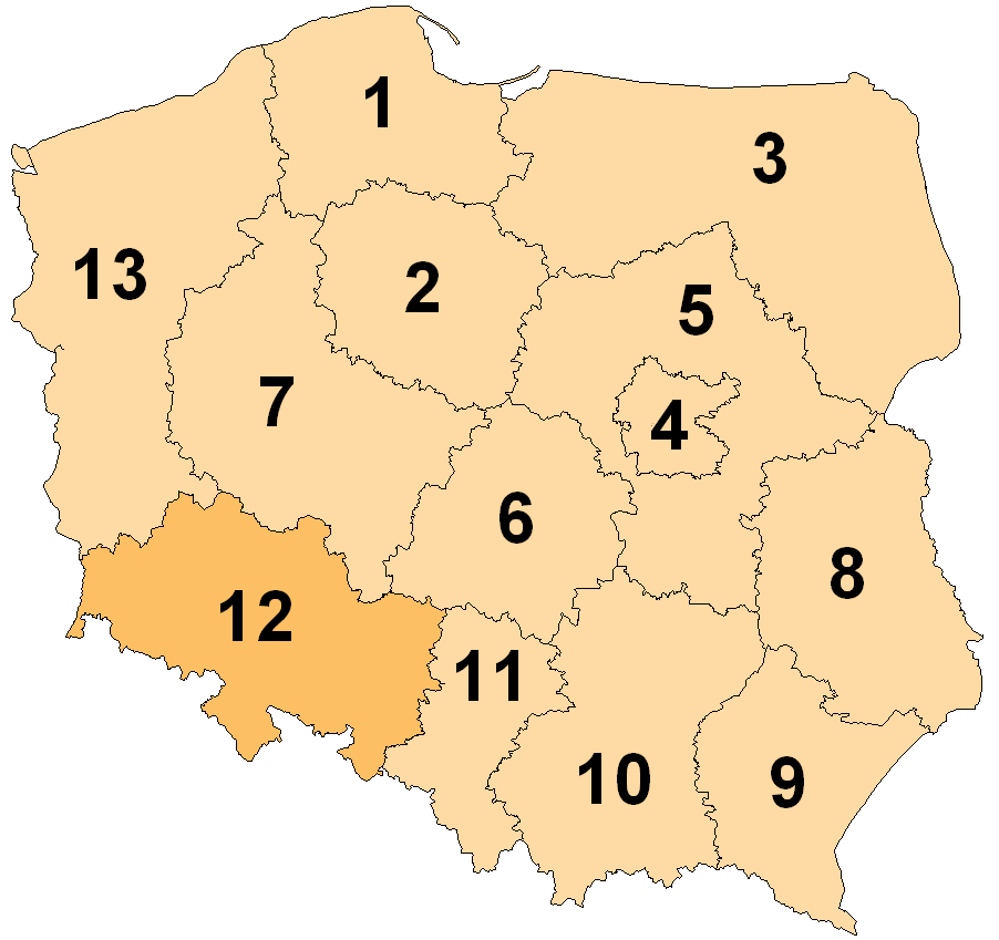 Lower Silesian and Opole (European Parliament constituency) - European Parliament constituencie in Poland